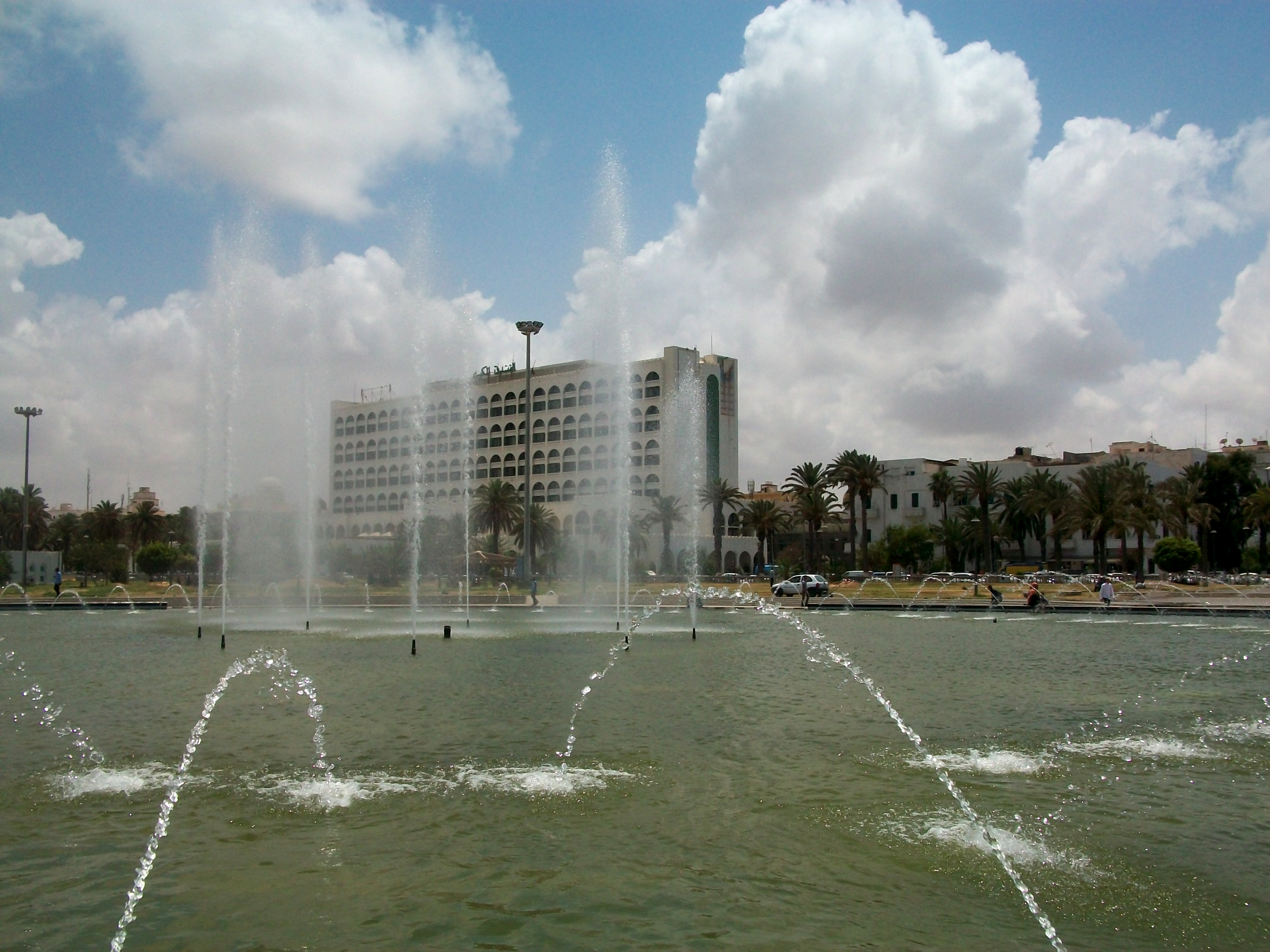 A large fountain in Tripoli Corniche Park. In the background, the Grand Hotel is visible.